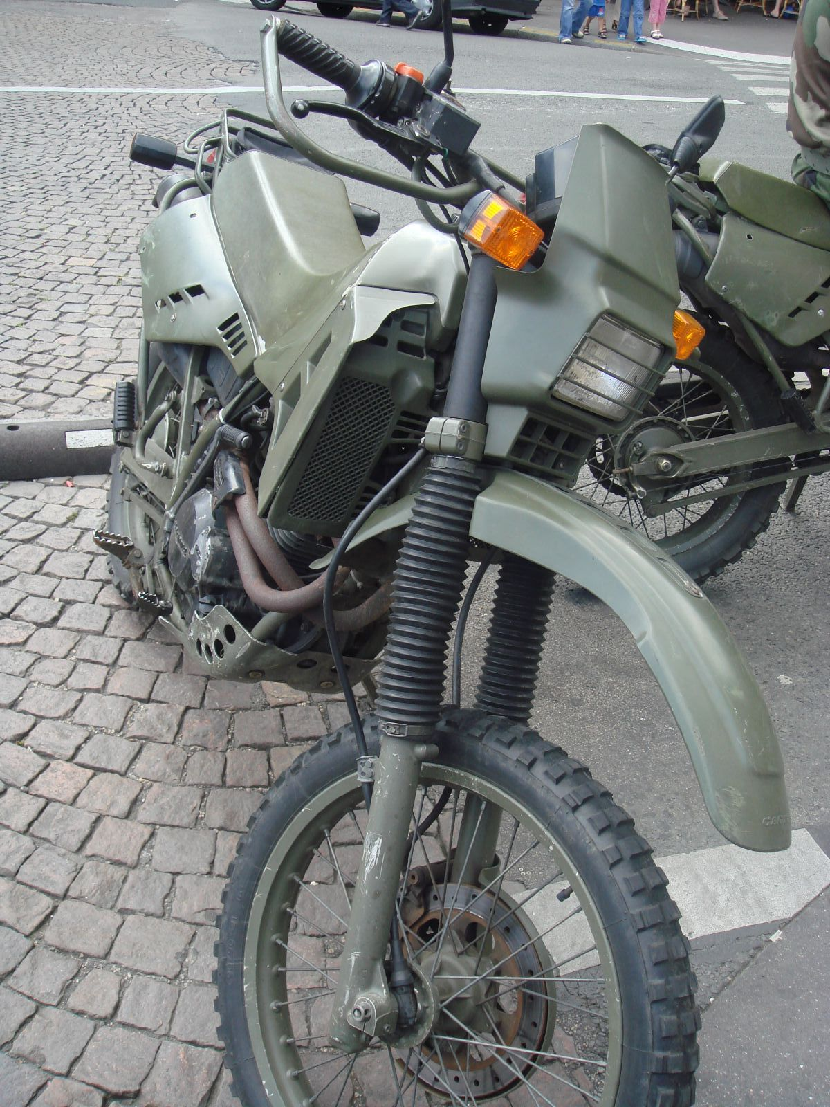 they were using these to escort the military vehicles through the city. This one is used by the 18th Signals Regiment (18e régiment de transmissions) in Normandy, France.